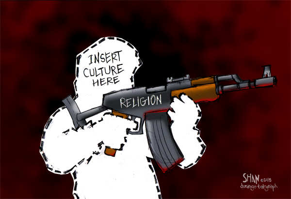 Cartoon by Shan Wells, political cartoonist for the Durango Telegraph and Huffington Post. Please use with attribution